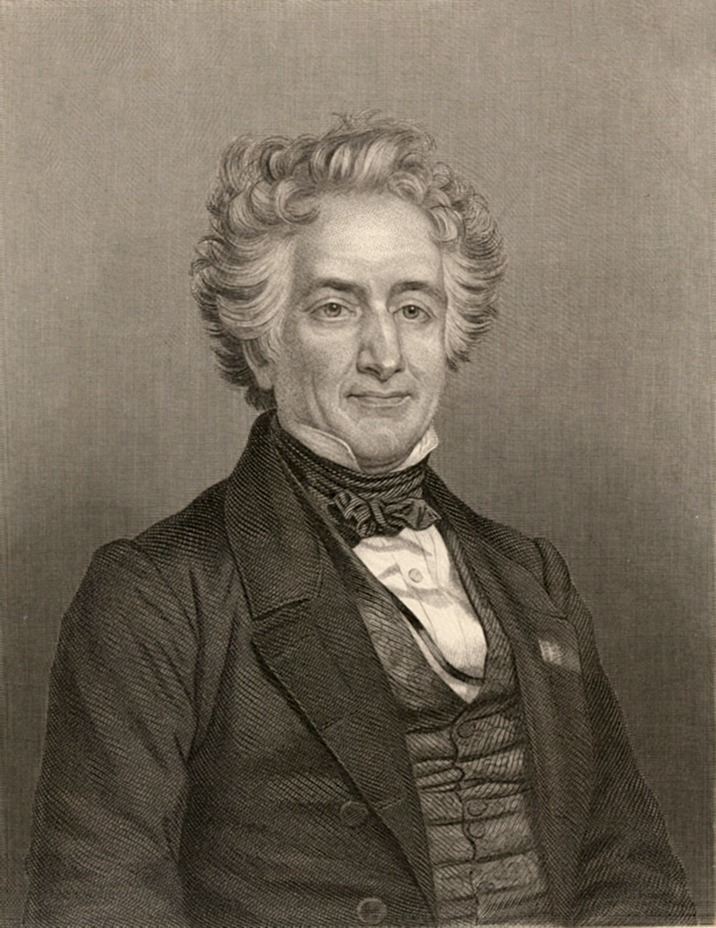 Michel Eugène Chevreul (1786-1889), French chemist.